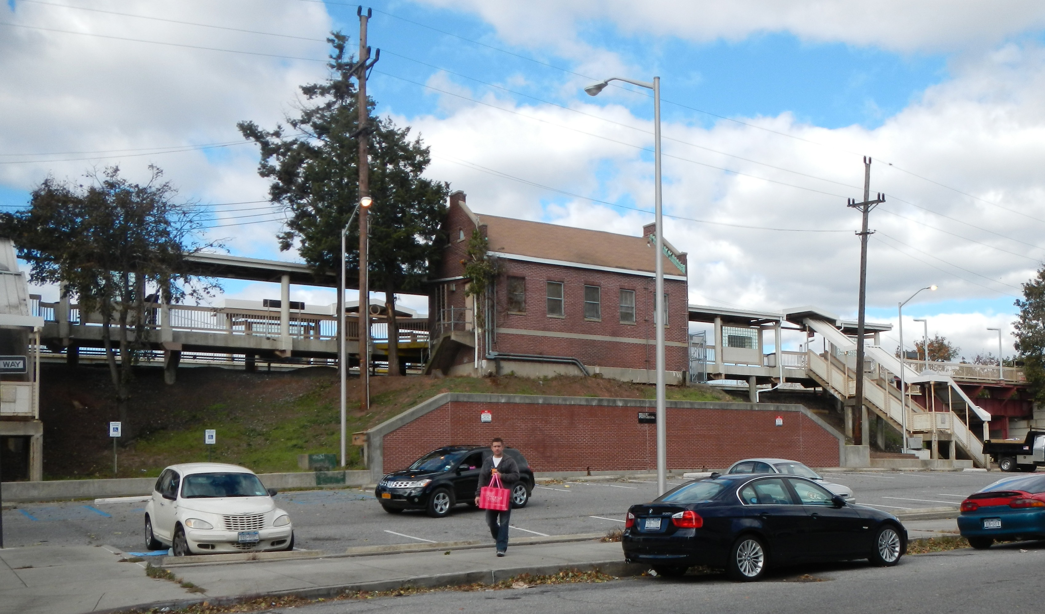 Looking north at Dongan Hills station house on a partly sunny midday.